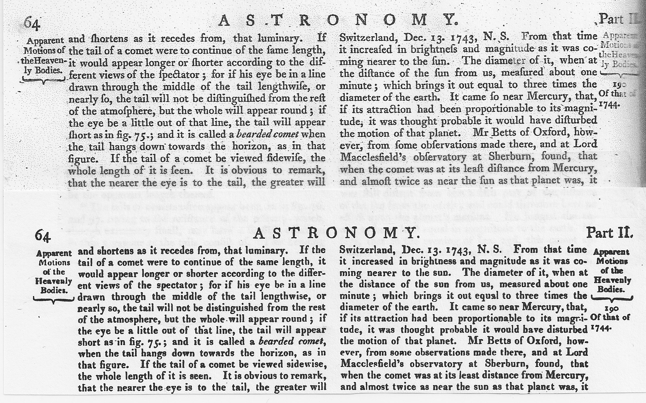 Comparing 5th edition of the Encyclopædia Britannica, 1817, top, to 6th edition, 1823. Note removal of the Long s in the 6th edition.